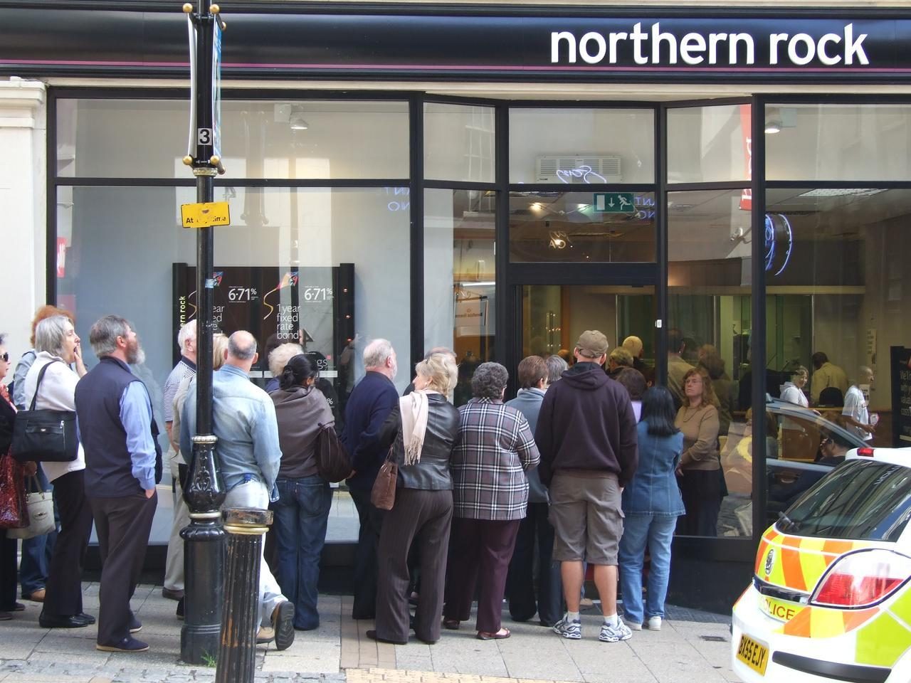 A picture of a bank run outside a branch of Northern Rock in Birmingham, United Kingdom in 2007, when there was speculation about problems with bank.Birmingham: Rockin and a Rollin'